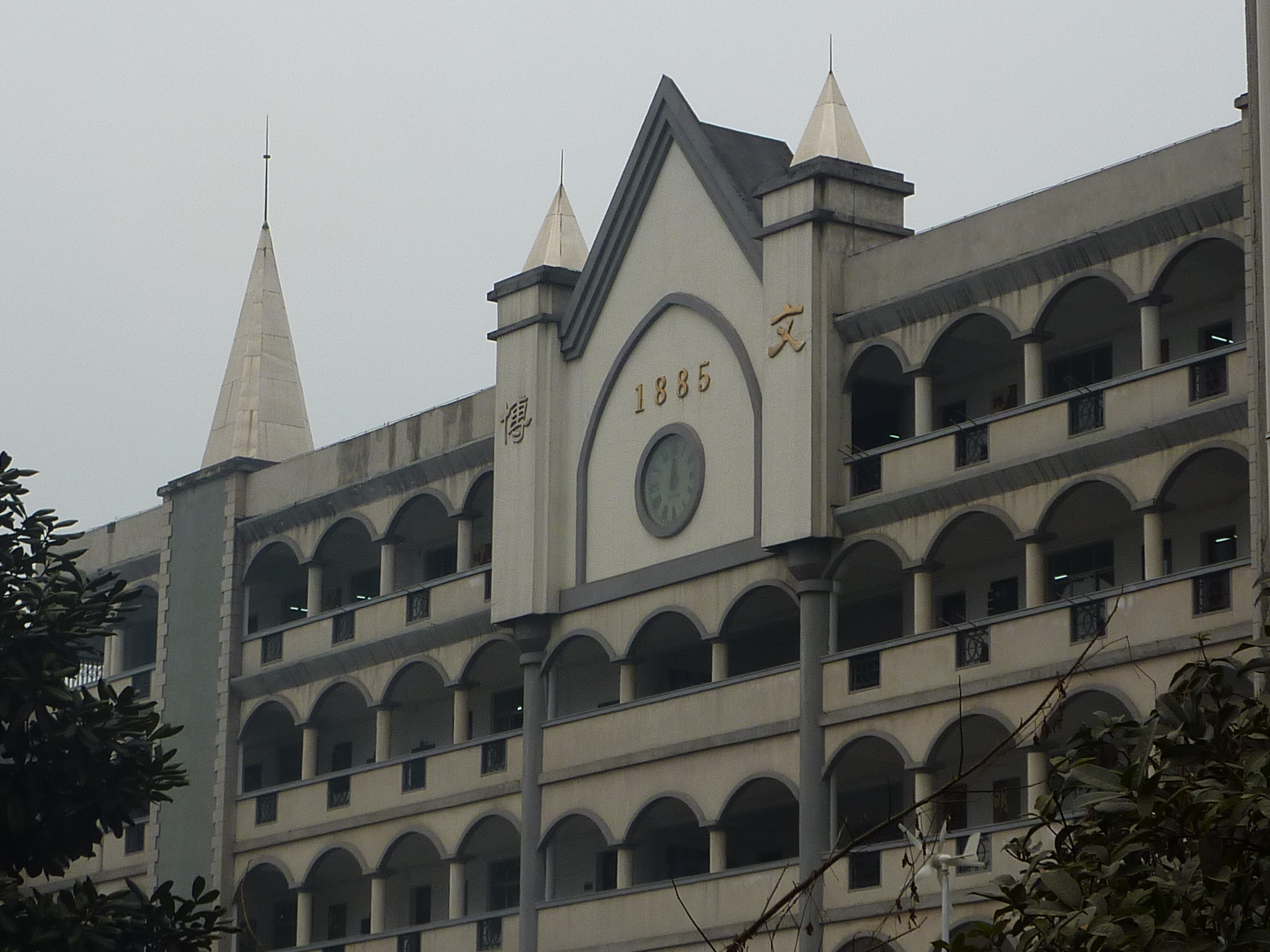 Wuhan's Secondary School No. 15 is located in Wuluo St, in downtown Wuchang. It was founded in 1880 as a Methodist school, and the building shows that. It was renamed to Bowen (博文) School in 1928, and converted to a public school in 1952. while the methodist church in front of it is now an upscale (and church-themed) pastry shop.